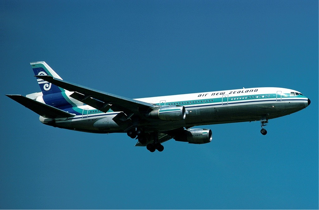 ZK-NZP, an Air New Zealand-operated McDonnell Douglas DC-10, lands at London Heathrow Airport in July 1977. The aircraft was destroyed when it crashed into Mount Erebus, Antarctica while operating Air New Zealand Flight 901 on 28 November 1979.